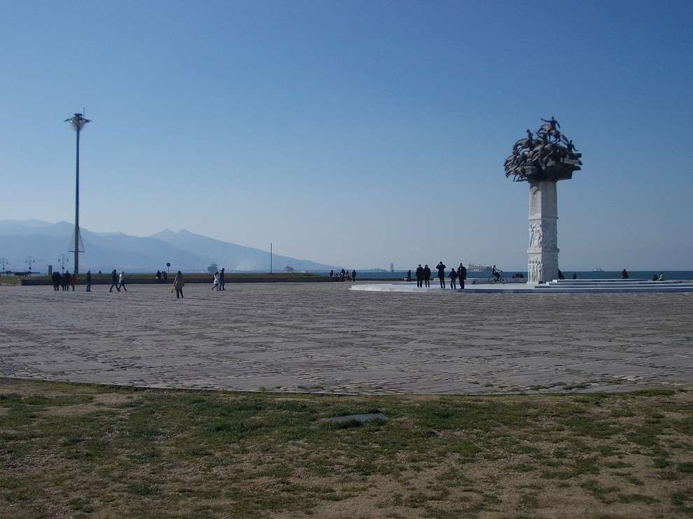 Gündoğdu Square in İzmir